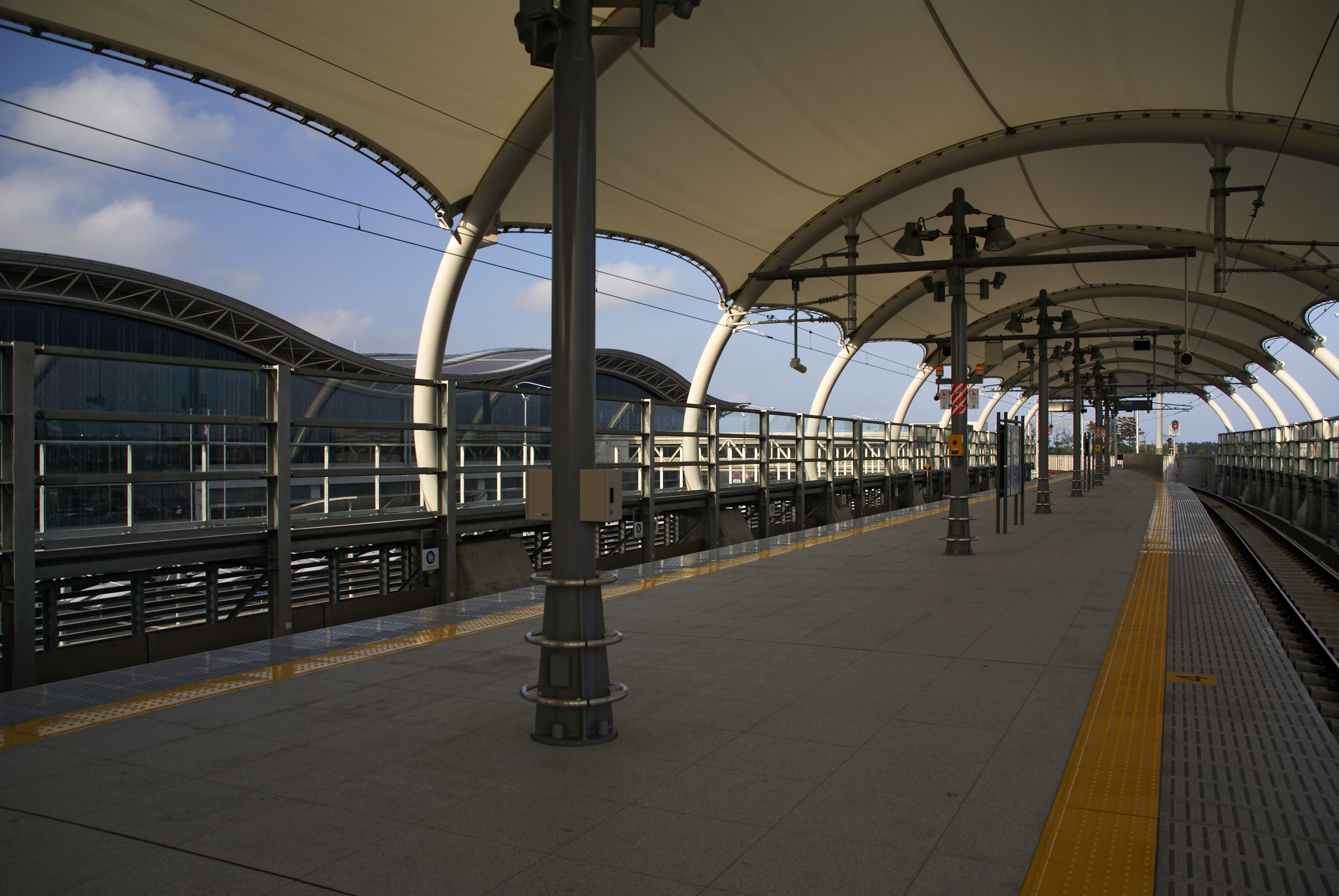 Sendai Airport Station in Natori, Miyagi prefecture, Japan